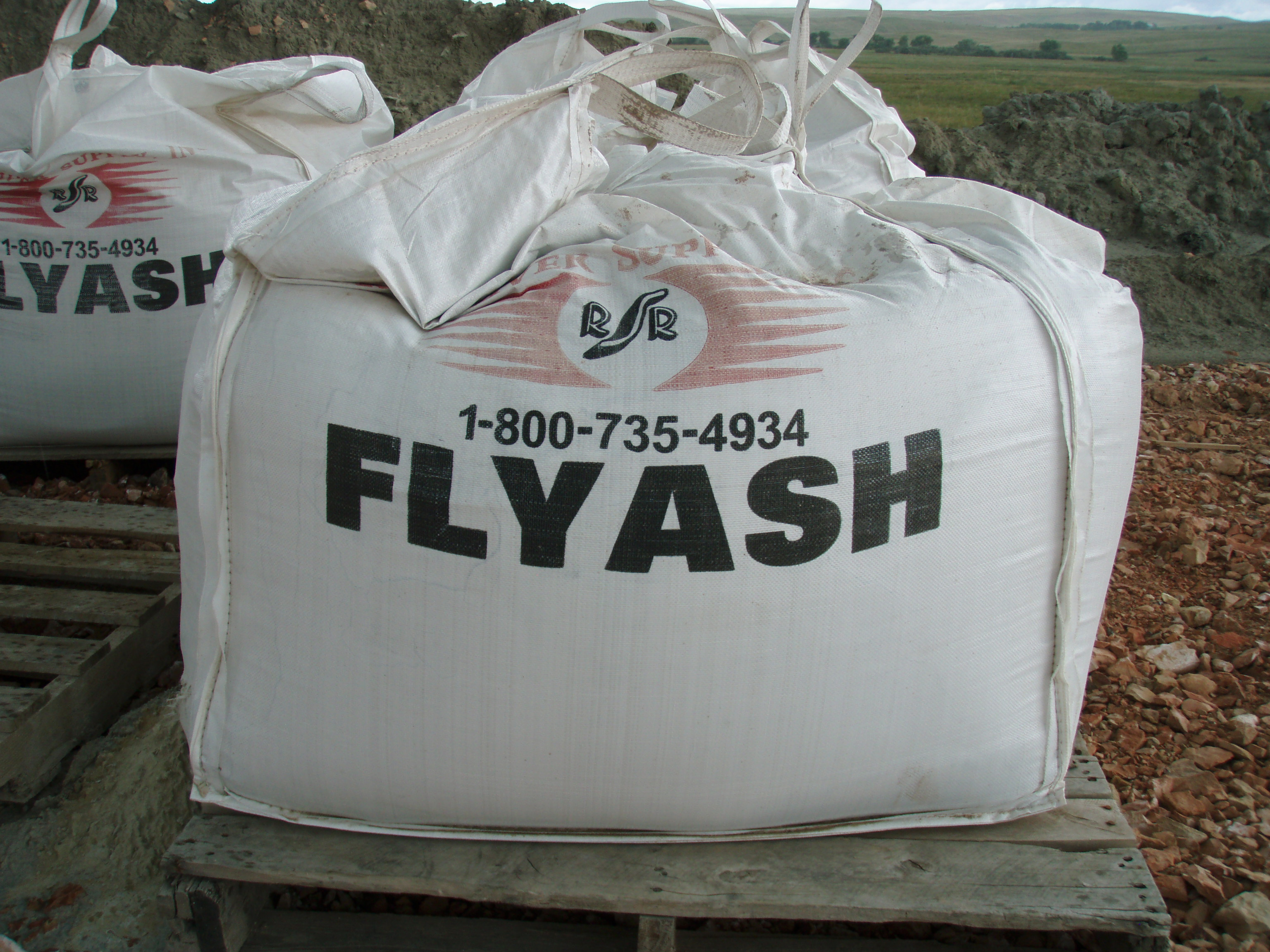 FlyAsh Absorbant for fluids in Mud Pits is only required in North Dakota and not Texas where they use fluid Mud Pits